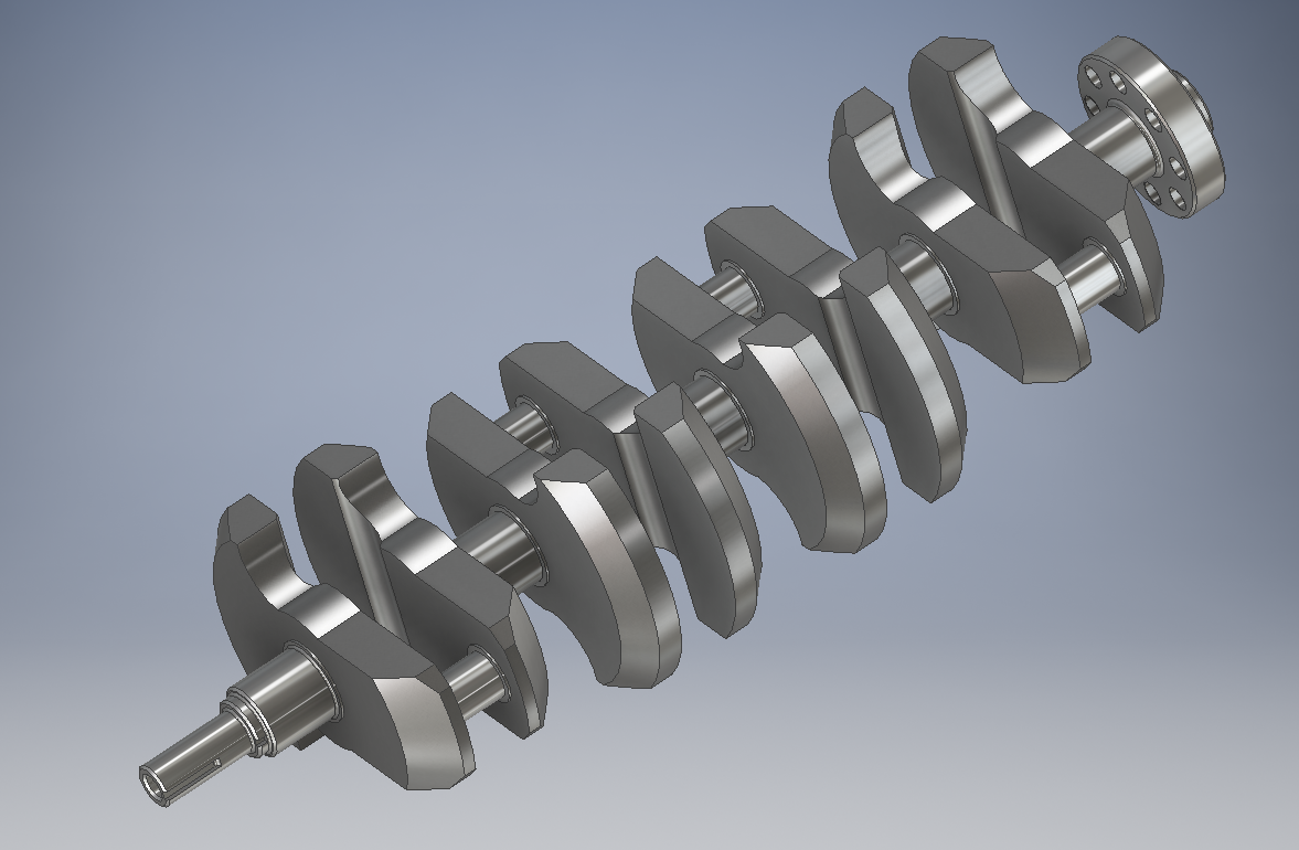 This crankshaft (8V) has been created in Autodesk Inventor (3D modeling program for machine parts) at the Secondary Technical School of Mechanical Engineering in Olomouc.